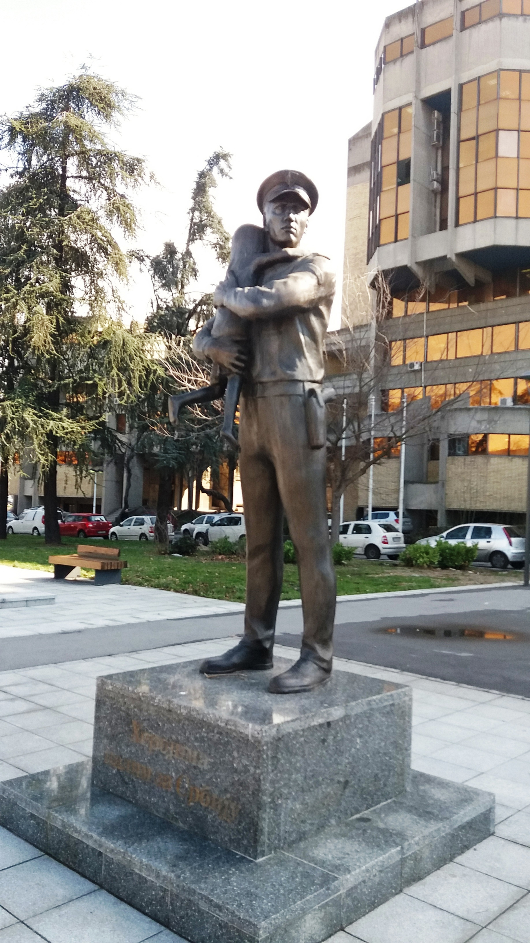 Monument to Heroes Killed for Serbia in New Belgrade